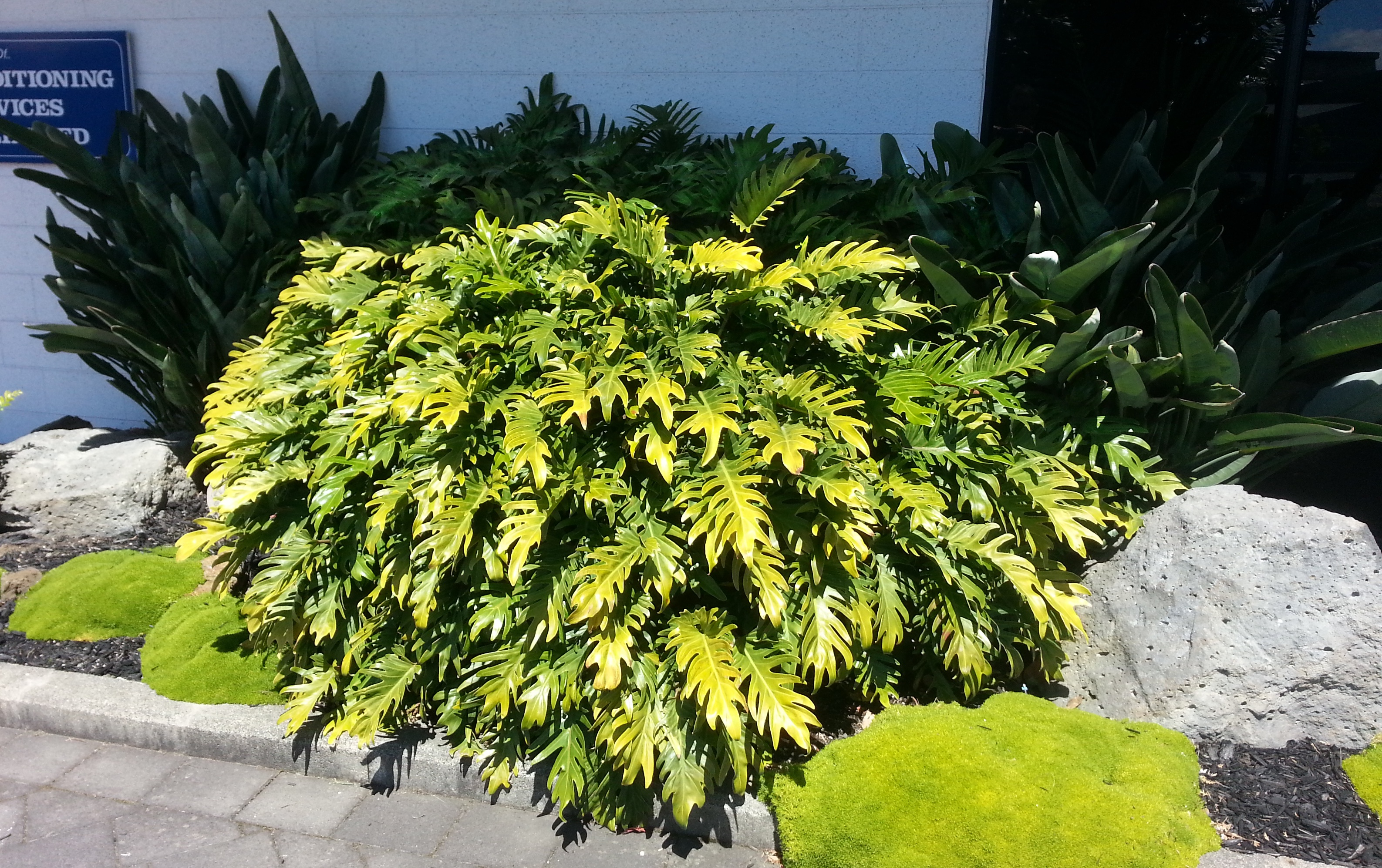 Philodendron xanadu, growing in a clump outside a business premises in Walls Rd, Penrose, Auckland, New Zealand. The clump is about 1.5 metres tall and individual leaves are about 40cm long or more. The clump is long established and is over 2 metres wide. Despite claims that P xanadu is a natural "sport" of P bipinnatifidum or P selloum, the species Philodendron xanadu exists in nature and was being grown well before the popularisation of the plant via tissue culture. This easily grown philodendron makes a dramatic, tropical statement in the landscape. The deeply divided, usually drooping, dark grey-green leaves grow up to 18 inches long and 8 to 12 inches wide, appearing on long, smooth petioles. Each leaf is divided into 15 to 20 lobes. The flower is not showy.